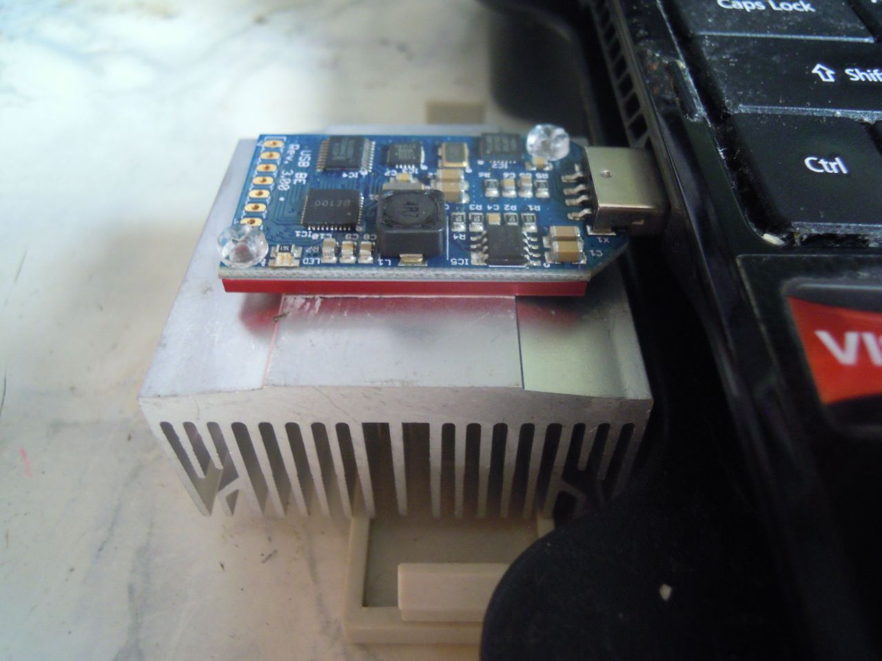 ASICMINER USB Block Erupter - Bitcoin mining device with an ASIC (application-specific integrated circuit; the chip on the bottom-left of the picture).